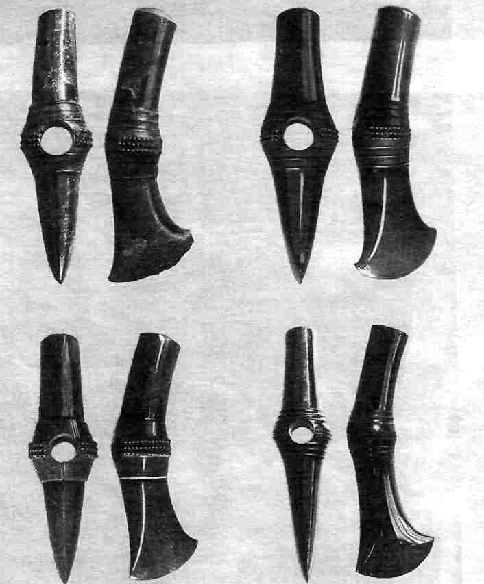 Axes, found in Troy II